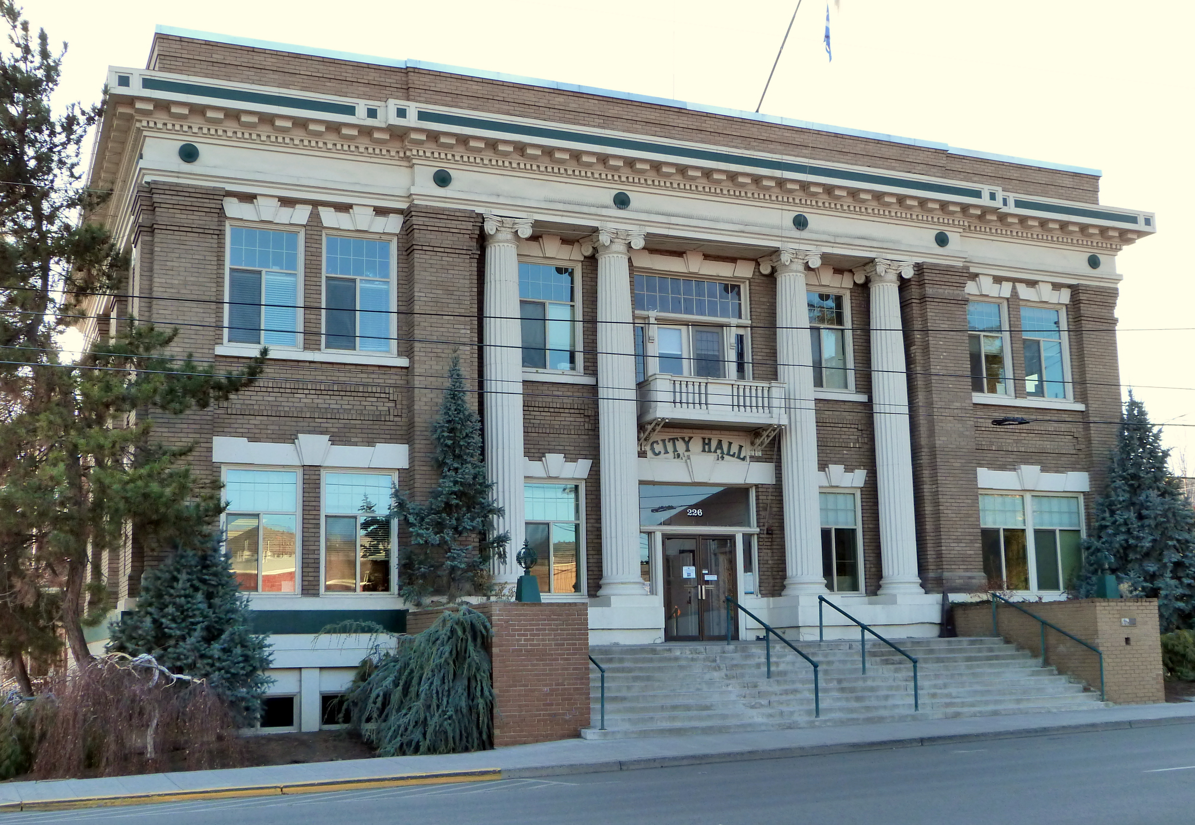 The historic Klamath Falls City Hall (built 1914), located at 226 South 5th Street in Klamath Falls, Oregon, United States, is listed on the US National Register of Historic Places.